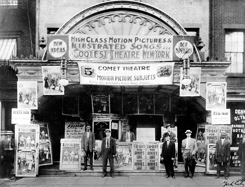 A five cent movie house, 1917.